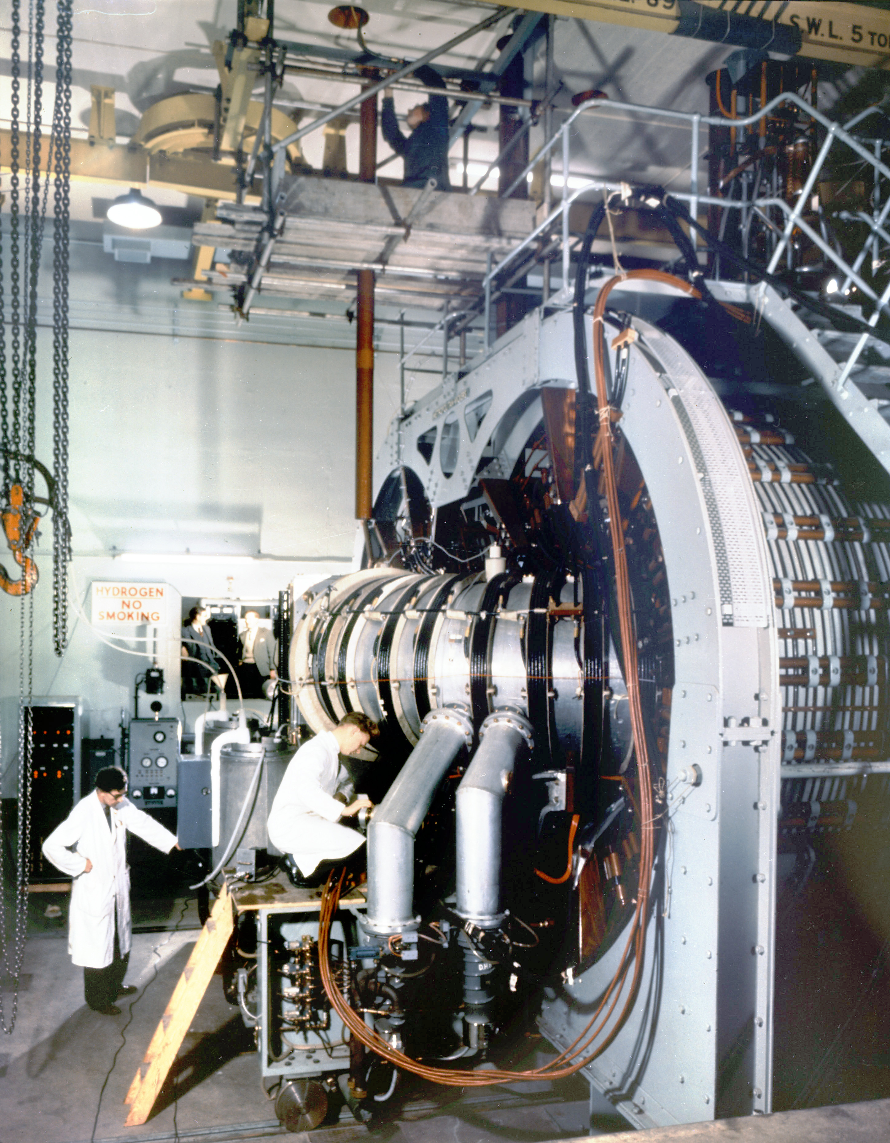 The left side of the ZETA reactor as seen prior to (or during) its public demonstration in January 1958.